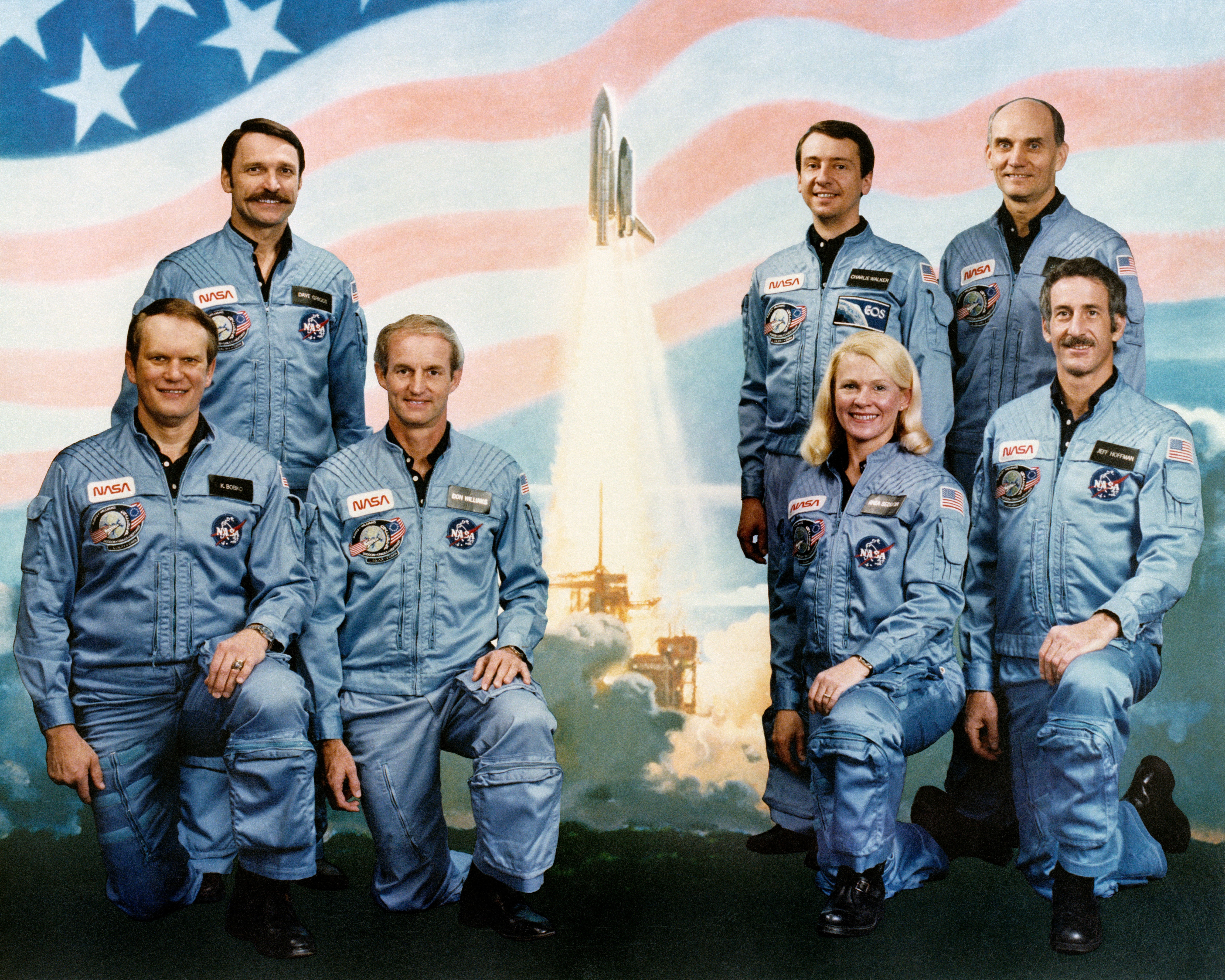 Official portrait of the STS-51D Crew. The Crewmembers are: (front row, left to right) Mission Specialist (MS) Karol J. Bobko, Crew Commander: Donald E. Williams, Pilot: Rhea Seddon and MS Jeffrey A. Hoffman, (back row) MS S. David Griggs, and Charles D. Walker and U.S. Senator Jake Garn (R-Utah) both Payload Specialists. As noted in File:STS-51-D crew.jpg this is an updated image that reflects the updated crew configuration that swapped Patrick Baudry with Charles D. Walker